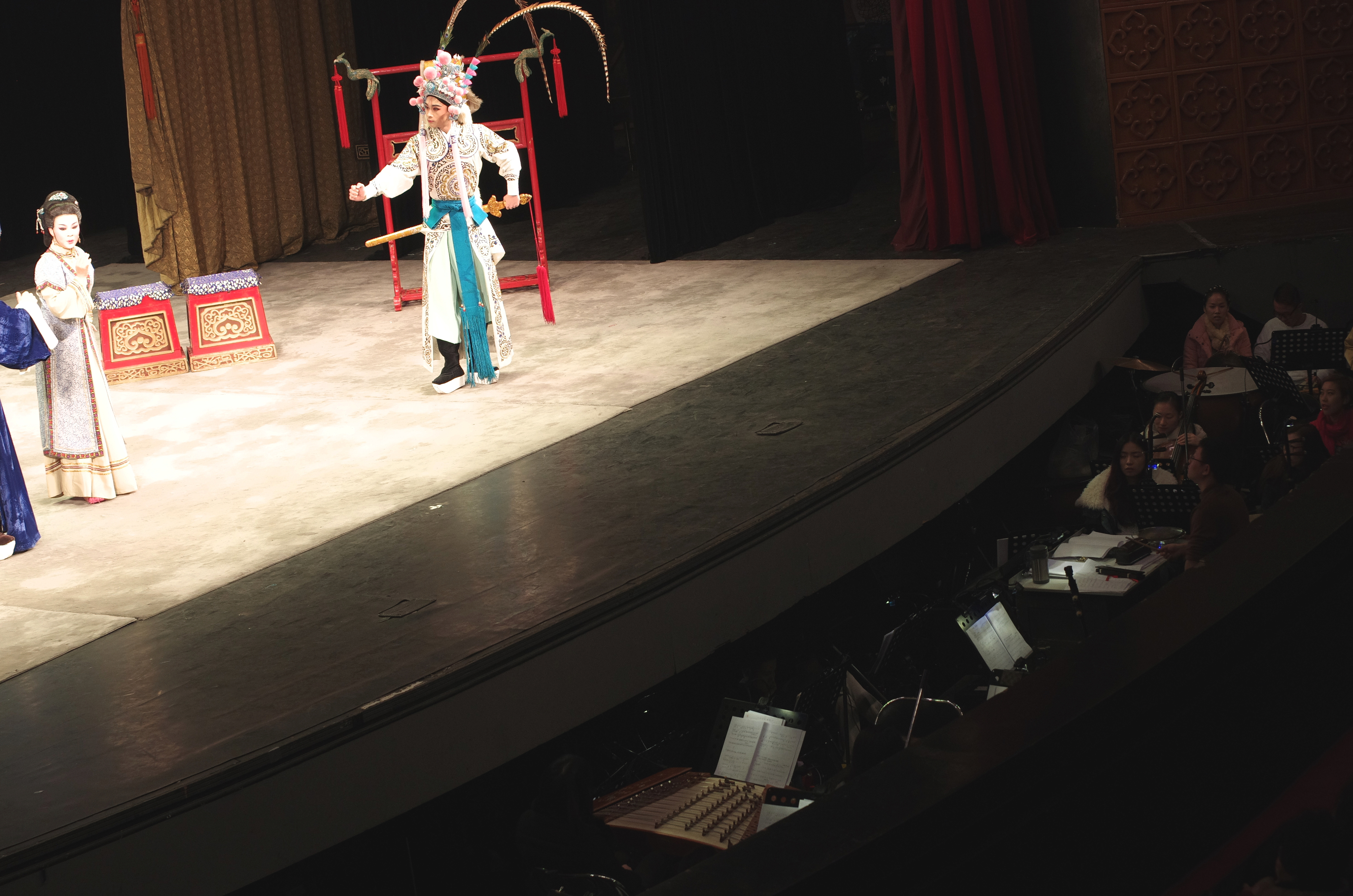 A Shaoxing opera performance of an episode from Complete Tales of Yue (說岳全傳) in Tianchan Theatre, Shanghai, China. The actresses are students at Shanghai Theatre Academy.